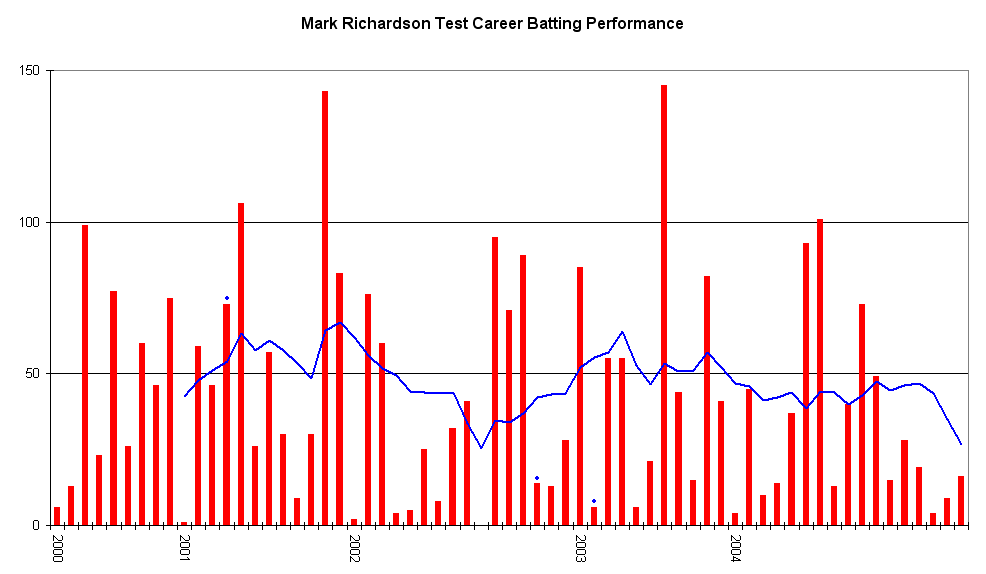 This graph details the Test Match performance of Mark Richardson. It was created by Raven4x4x. The red bars indicate the player's test match innings, while the blue line shows the average of the ten most recent innings at that point. Note that this average cannot be calculated for the first nine innings. The blue dots indicate innings in which Mark Richardson finished not-out. This graph was generated with Microsoft Excel 2002, using data from Cricinfo [1] and Howstat [2].